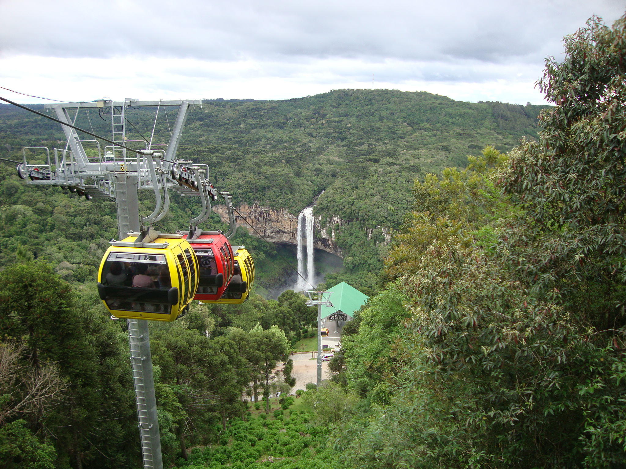 Caracol Water Carriers - Canela - Rio Grande do Sul - Brazil